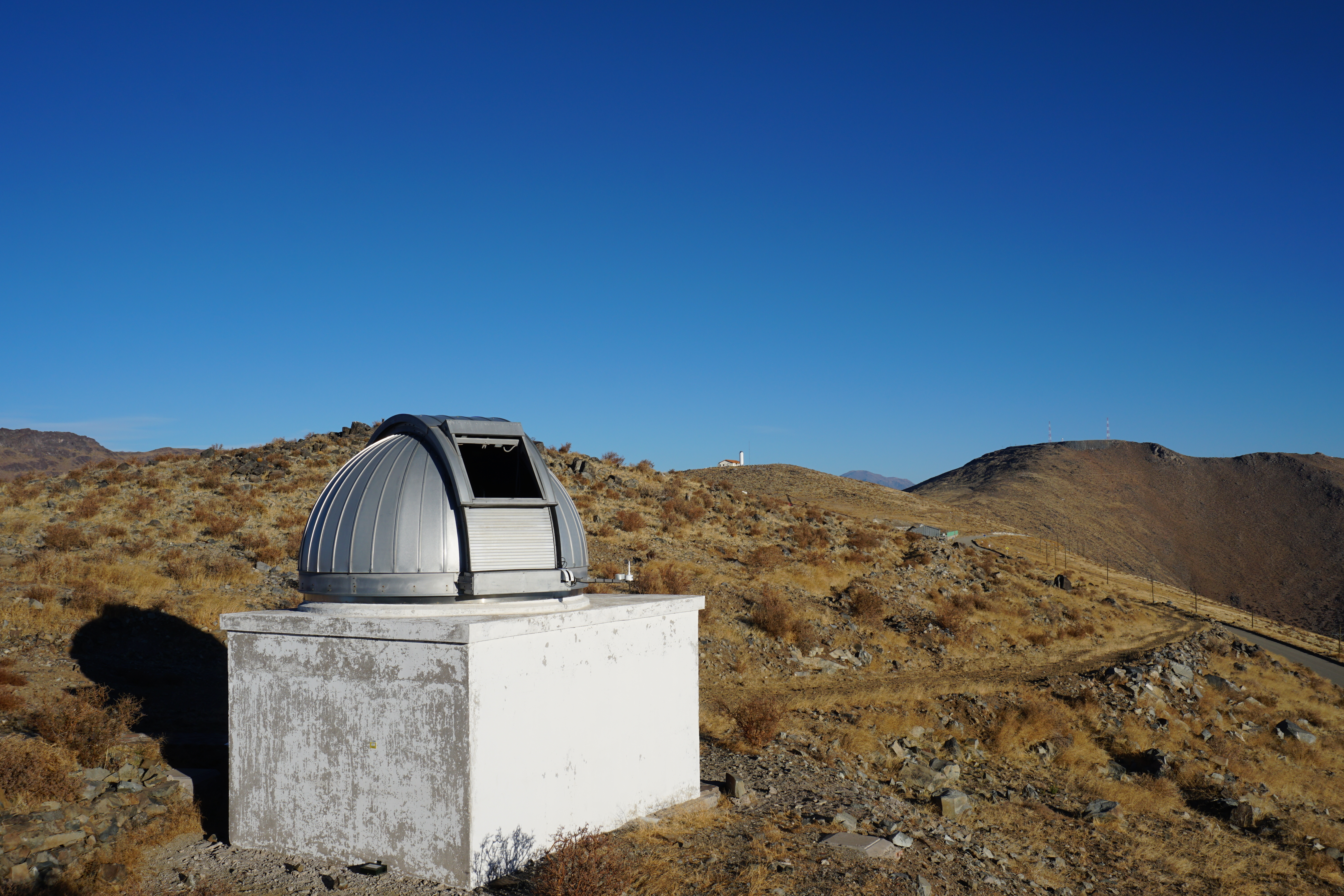 Solar telescope operated as part of the BiSON Network. This particular telescope is at Las Campanas Observatory in Atacama Region, Chile. In the distance, early construction work on the Giant Magellan Telescope can be seen.